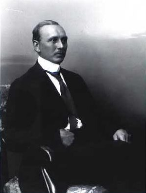 Kaj Svane Gnudtzmann (1880-1948), Danish engineer and Olympic gymnast